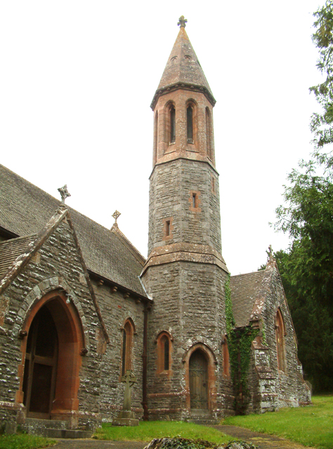 Tower and spire of St Bridget's parish church, Llansantffraed, Powys, seen from the southwest